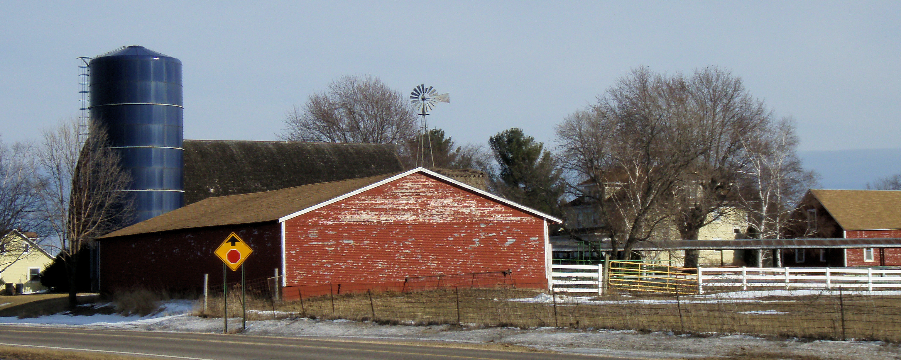 Edward Erickson Farm in Isanti, Minnesota, listed on the National Register of Historic Places.